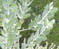 HelloMojo 04:01, 14 April 2007 (UTC)